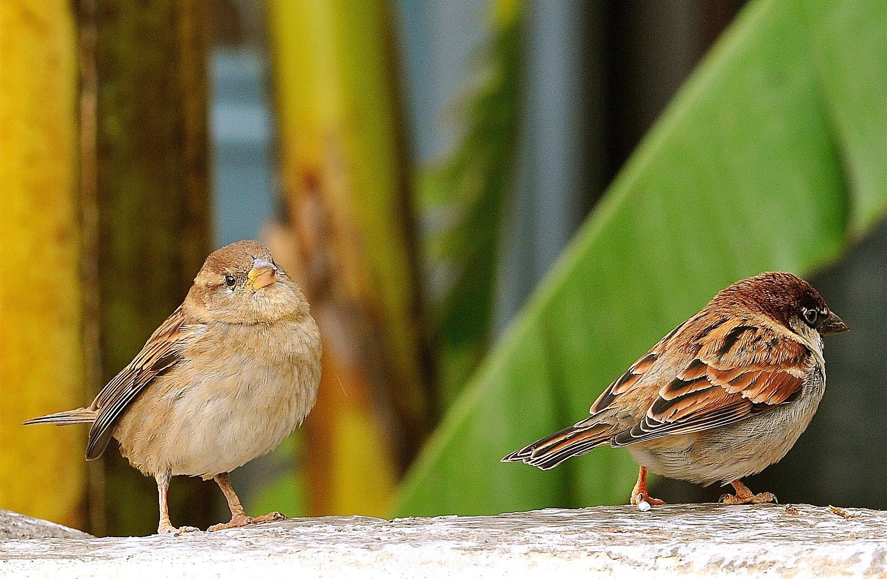 A female (left) and male (right) Italian Sparrow